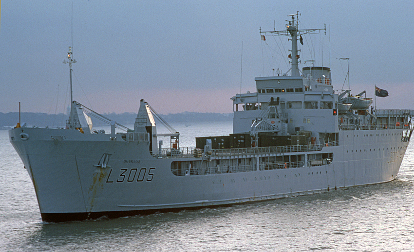 RFA Sir Galahad departing from Marchwood in 1979. Later sunk by air attack in the Falklands War. Scanned from a Kodachrome 35mm slide.